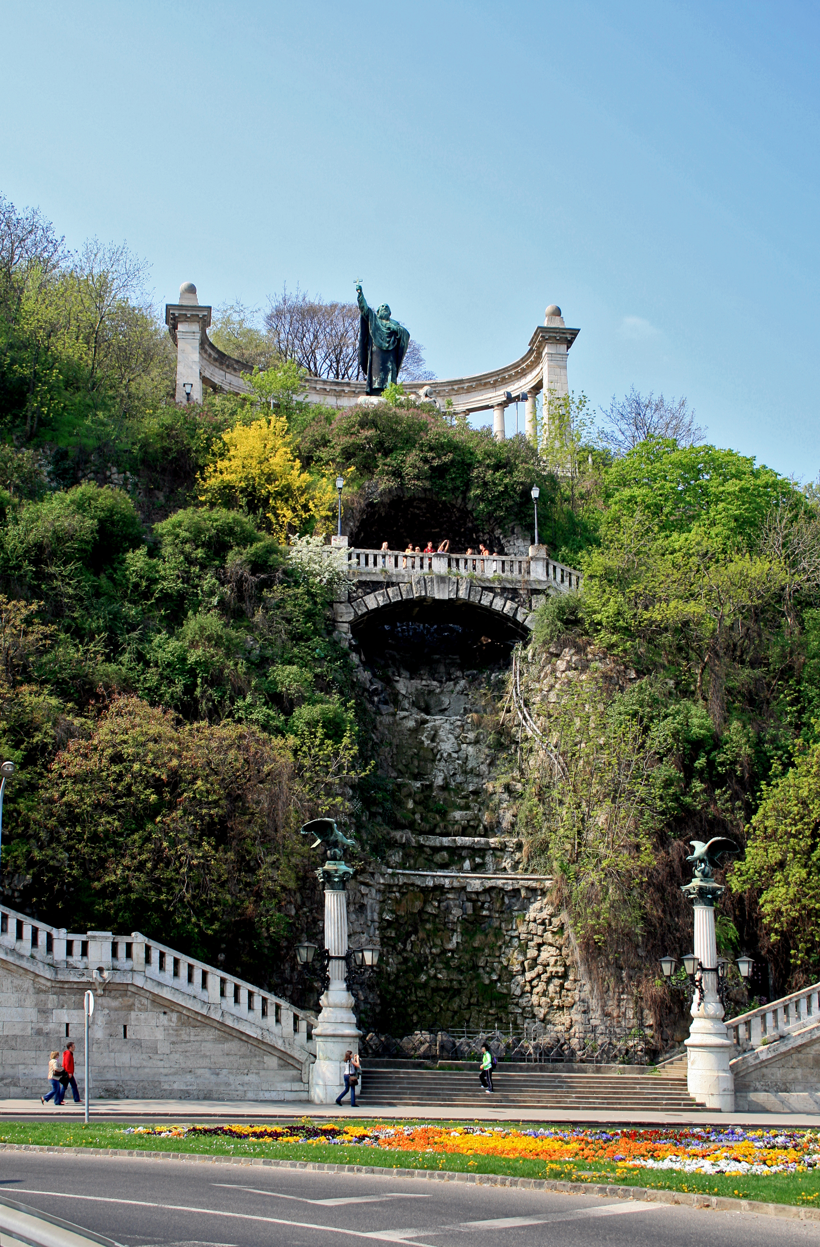 Statue of St. Gellért on Gellért Hill over Danube river, Budapest, Hungary